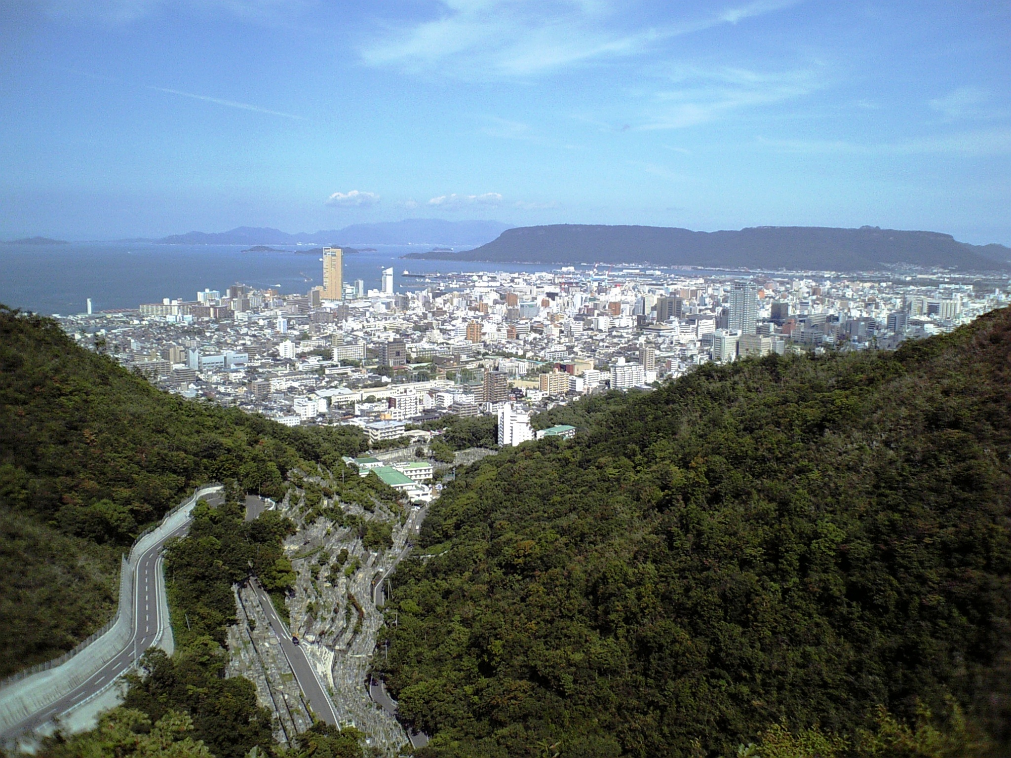 view center of Takamatsu from Yakushido, Mineyama, Takamatsu City, Kagawa Prefecture, Japan.